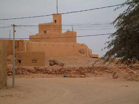 Colonial fortress in Kidal, Mali